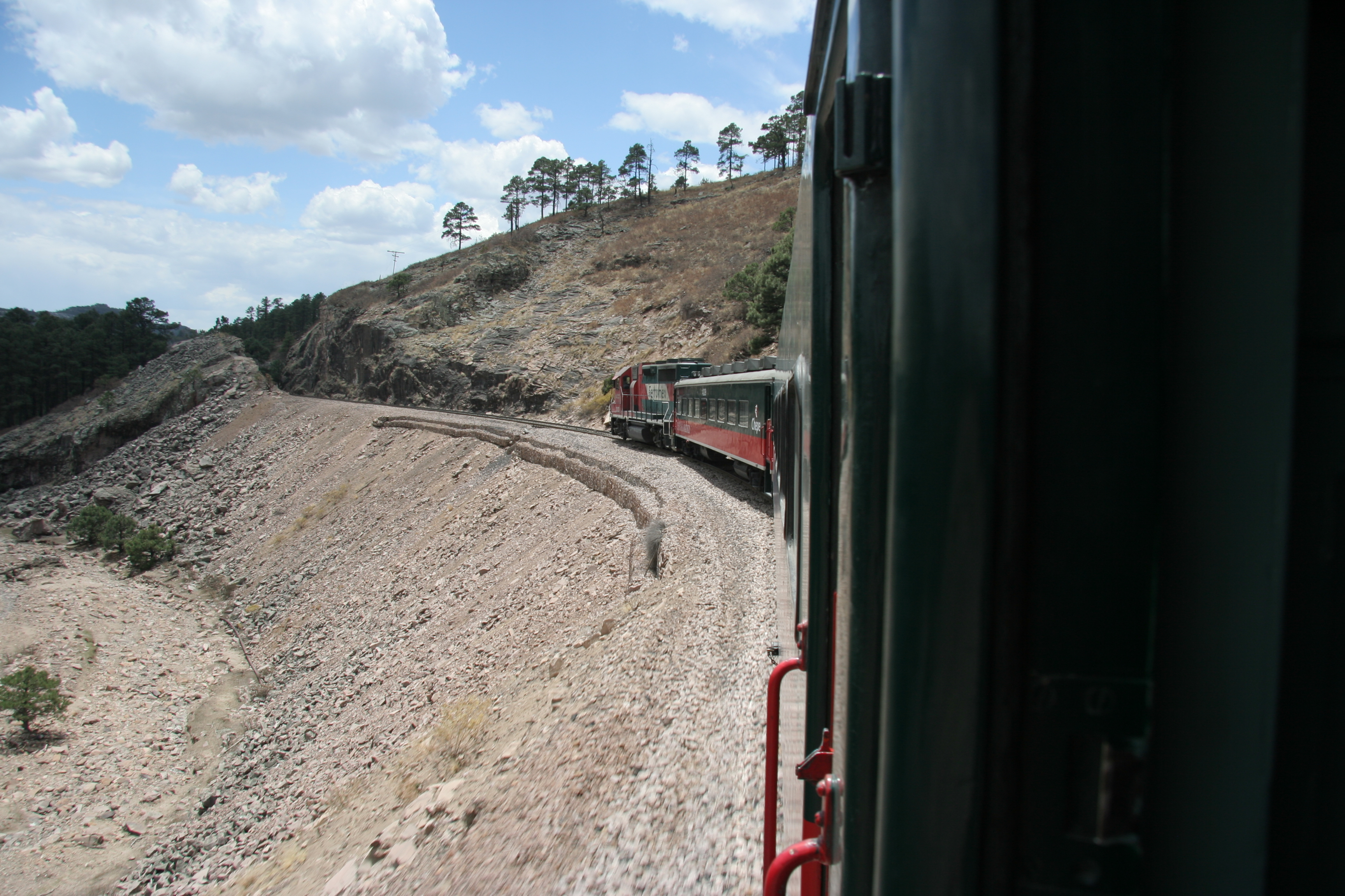 The El Chepe Train. Chihuahua al Pacifico train run by Ferromex . This image was taken on the second class train from Anahuac, Chihuahua, Mexico to Creel, Chihuahua, Mexico on Tuesday, May 16, 2006 at 12:32 AM local time.